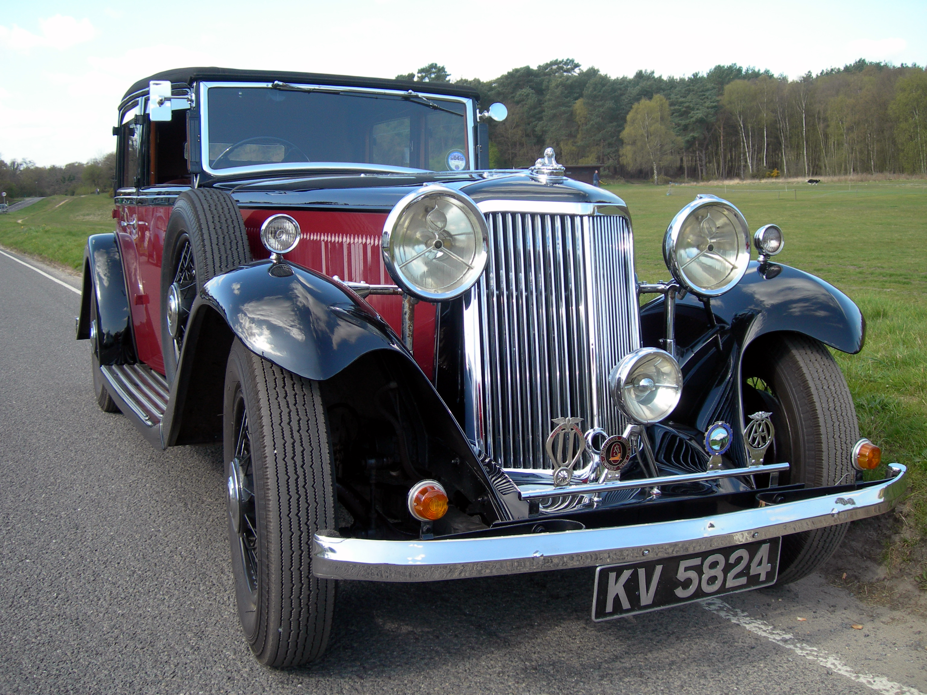 Reigate Heath,Apr 2010